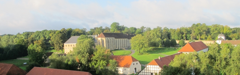 The territory of the former Monastery of Dalheim is about 7,5 hectares in size. Today it is the location of the Dalheim Monastery Foundation. LWL-State museum of monastery culture.